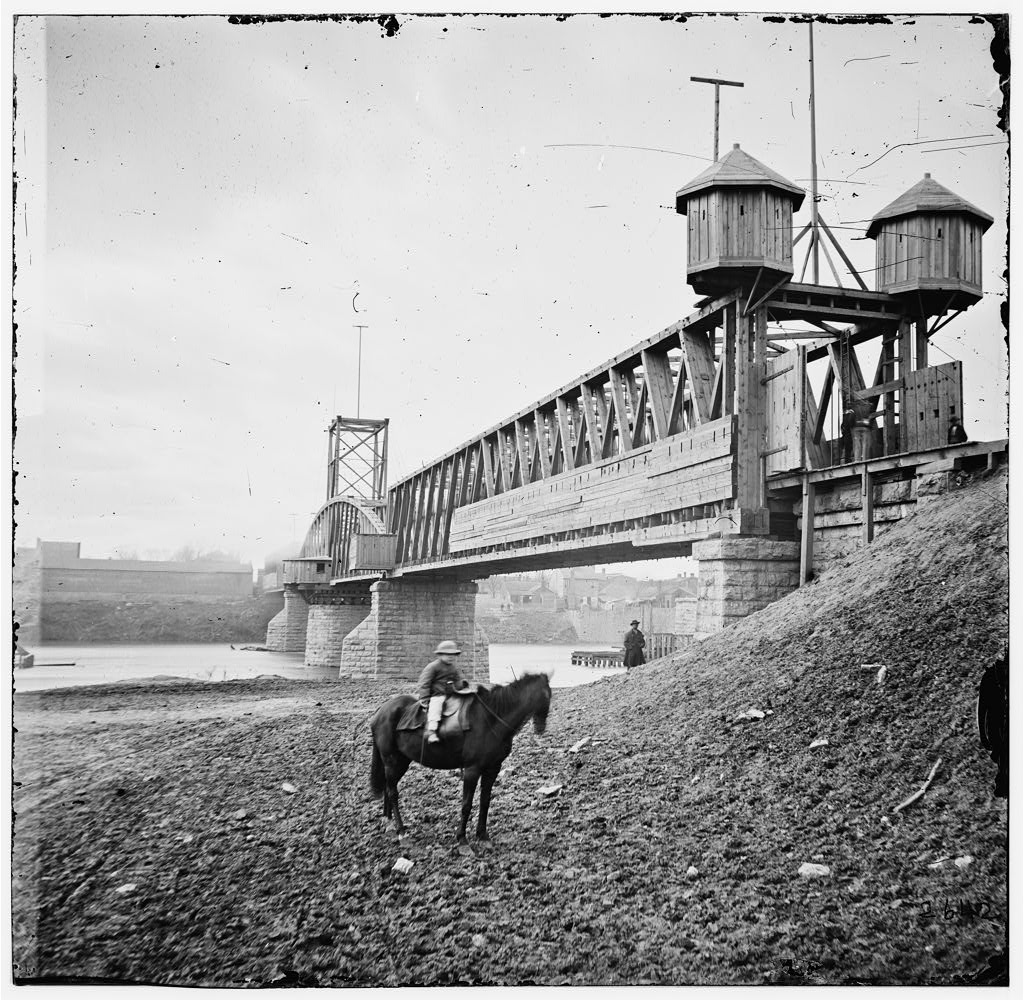 Nashville, Tenn. Fortified railroad bridge across Cumberland River Medium: 1 negative (2 plates) : glass, stereograph, wet collodion. Summary: Photograph of the War in the West. These photographs are of Hood before Nashville. Continuing his policy of the offensive at any cost, Gen. John B. Hood brought his reduced army before the defenses of Nashville, where it was overthrown by Gen. George H. Thomas on December 15-16, in the most complete victory of the war. If the date borne on this photograph is correct, it was taken in the course of the battle. Reproduction Number: LC-DIG-cwpb-02092 (digital file from original neg. of left half) LC-DIG-cwpb-02093 (digital file from original neg. of right half) LC-B8171-2642 (b&w film neg.) Rights Advisory: No known restrictions on publication. Call Number: LC-B811- 2642 [P&P] LOT 4177 (corresponding print) Repository: Library of Congress Prints and Photographs Division Washington, D.C. 20540 USA